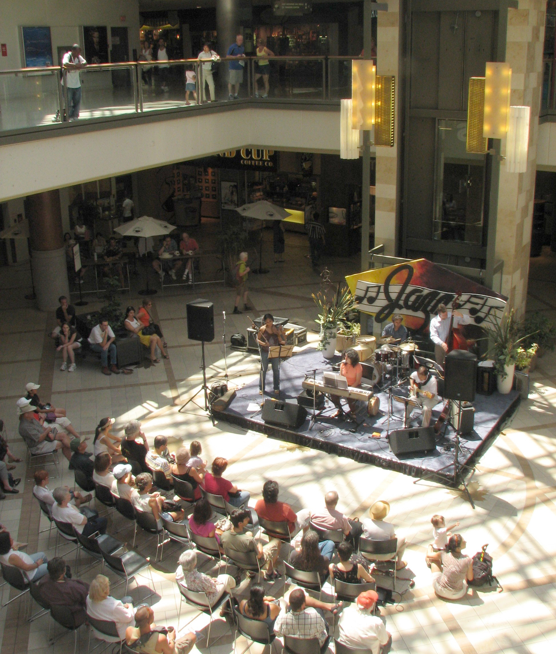 People sitting on chairs in front of musicians.